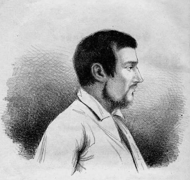 The thief Carl Fredrik Lilja